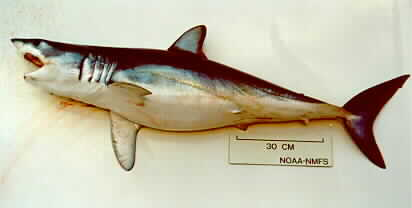 Dead Isurus oxyrinchus